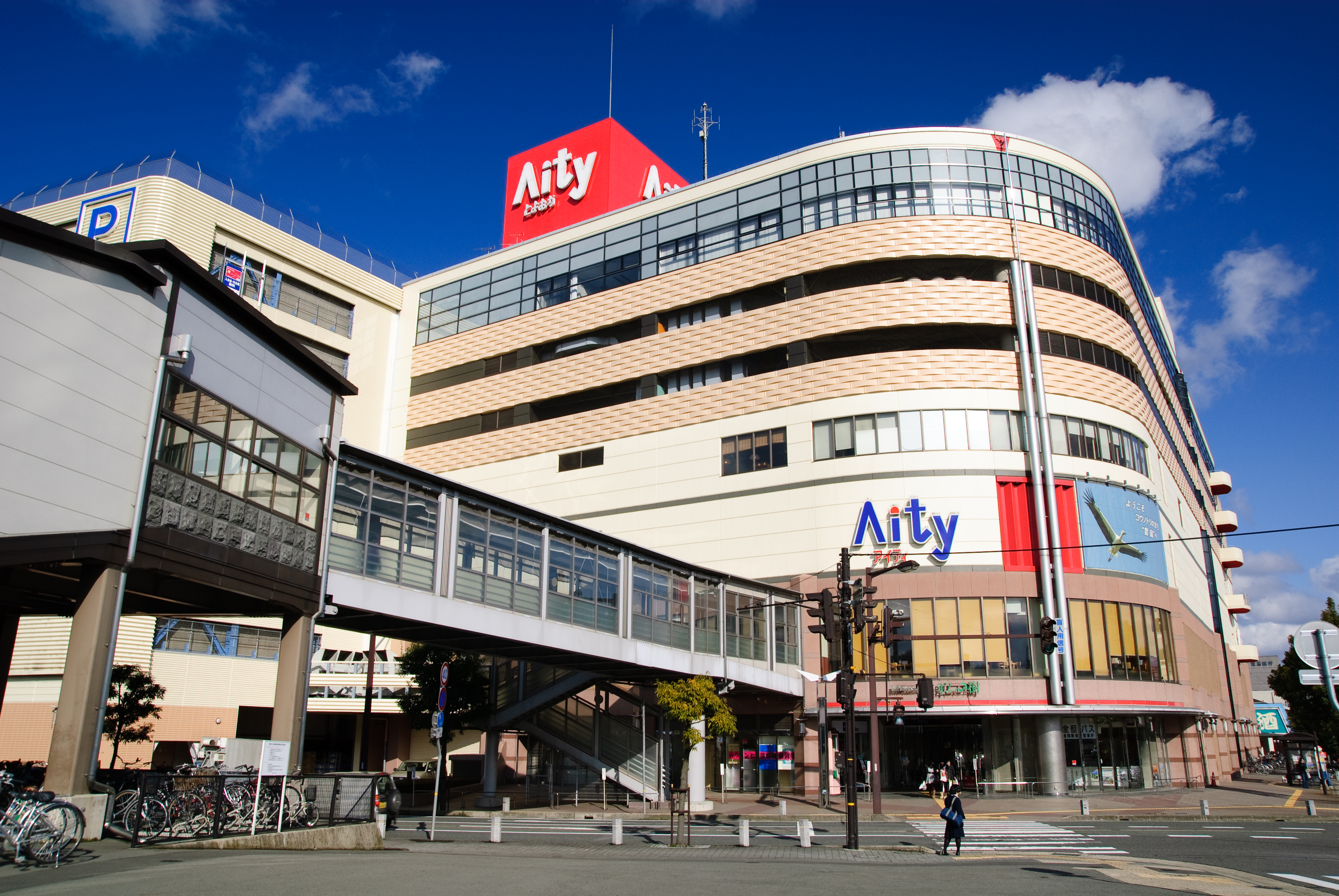 Aity Shopping Center